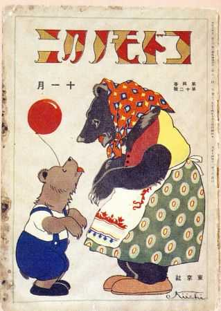 Front cover of the November 1925 issue of Kodomo no Kuni